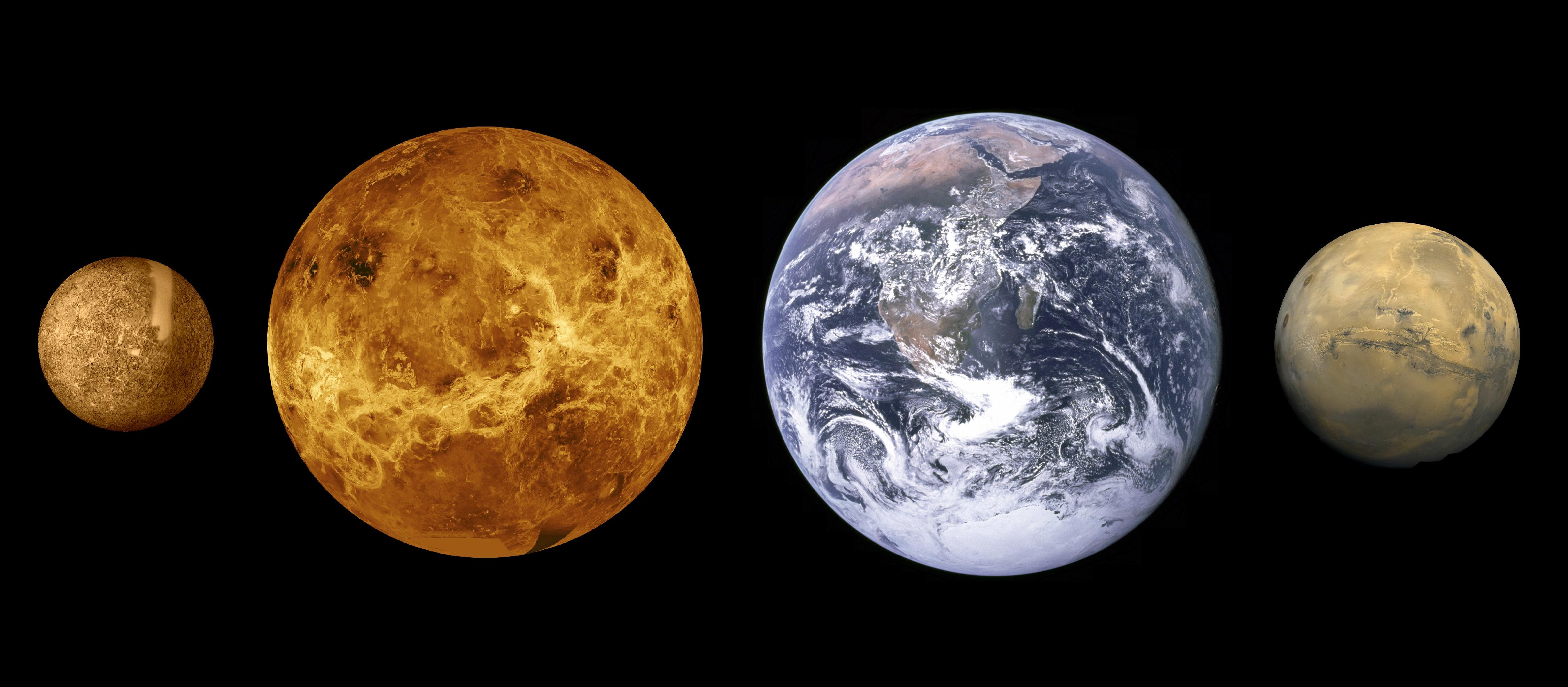 The terrestrial planets, from left to right: Mercury, Venus, Earth, and Mars. A terrestrial planet is a planet that is primarily composed of silicate rocks. The term is derived from the Latin word for Earth, "Terra", so an alternate definition would be that these are planets which are, in some notable fashion, "Earth-like". Terrestrial planets are substantially different from gas giants, which might not have solid surfaces and are composed mostly of some combination of hydrogen, helium, and water existing in various physical states. Terrestrial planets all have roughly the same structure: a central metallic core, mostly iron, with a surrounding silicate mantle. Terrestrial planets have canyons, craters, mountains, volcanoes and secondary atmospheres.